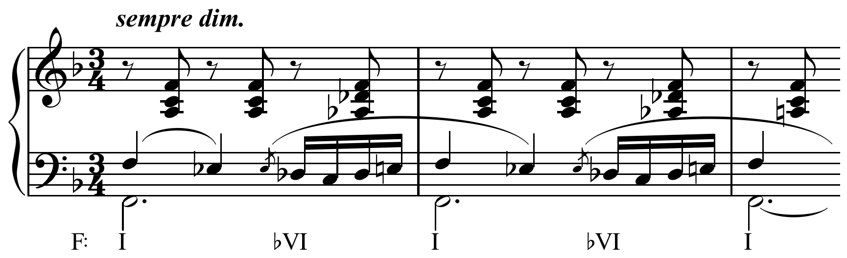 Chromatic mediant from Tchaikovsky's (1840–1893) Chant sans paroles